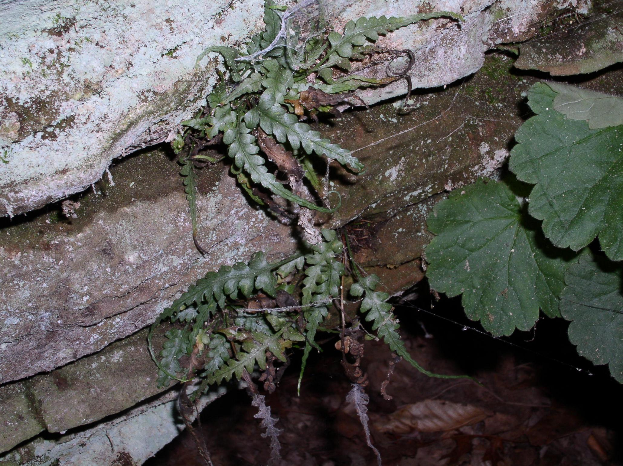 Asplenium pinnatifidum on sandstone cliffs, Hemlock Cliffs, Hoosier National Forest, Indiana.